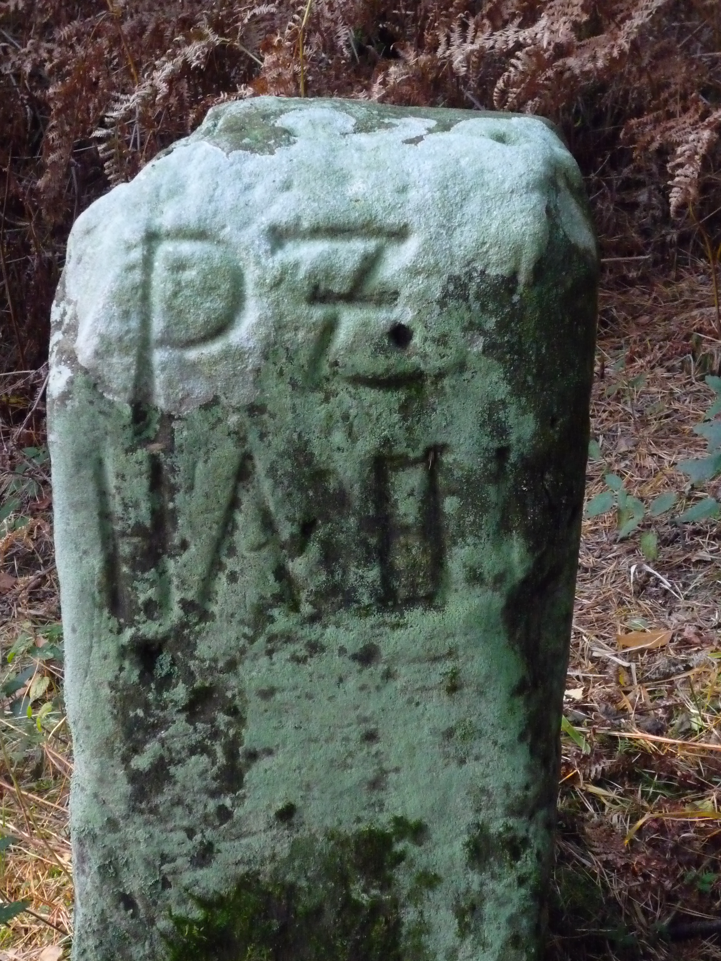 boundary stone near Hassel (Saar)